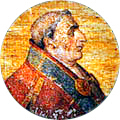 Pope Paul II